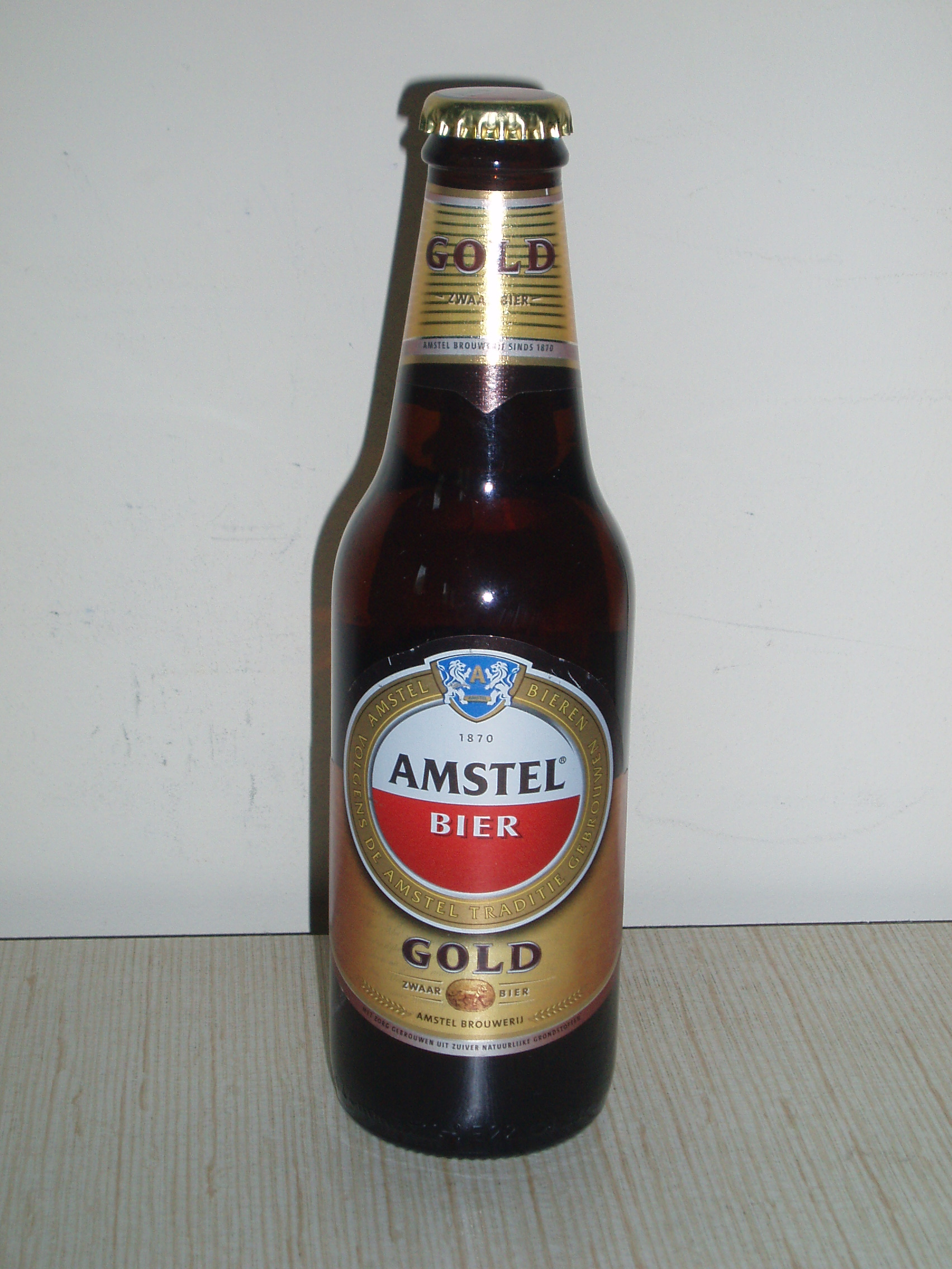 Amstel Gold beer